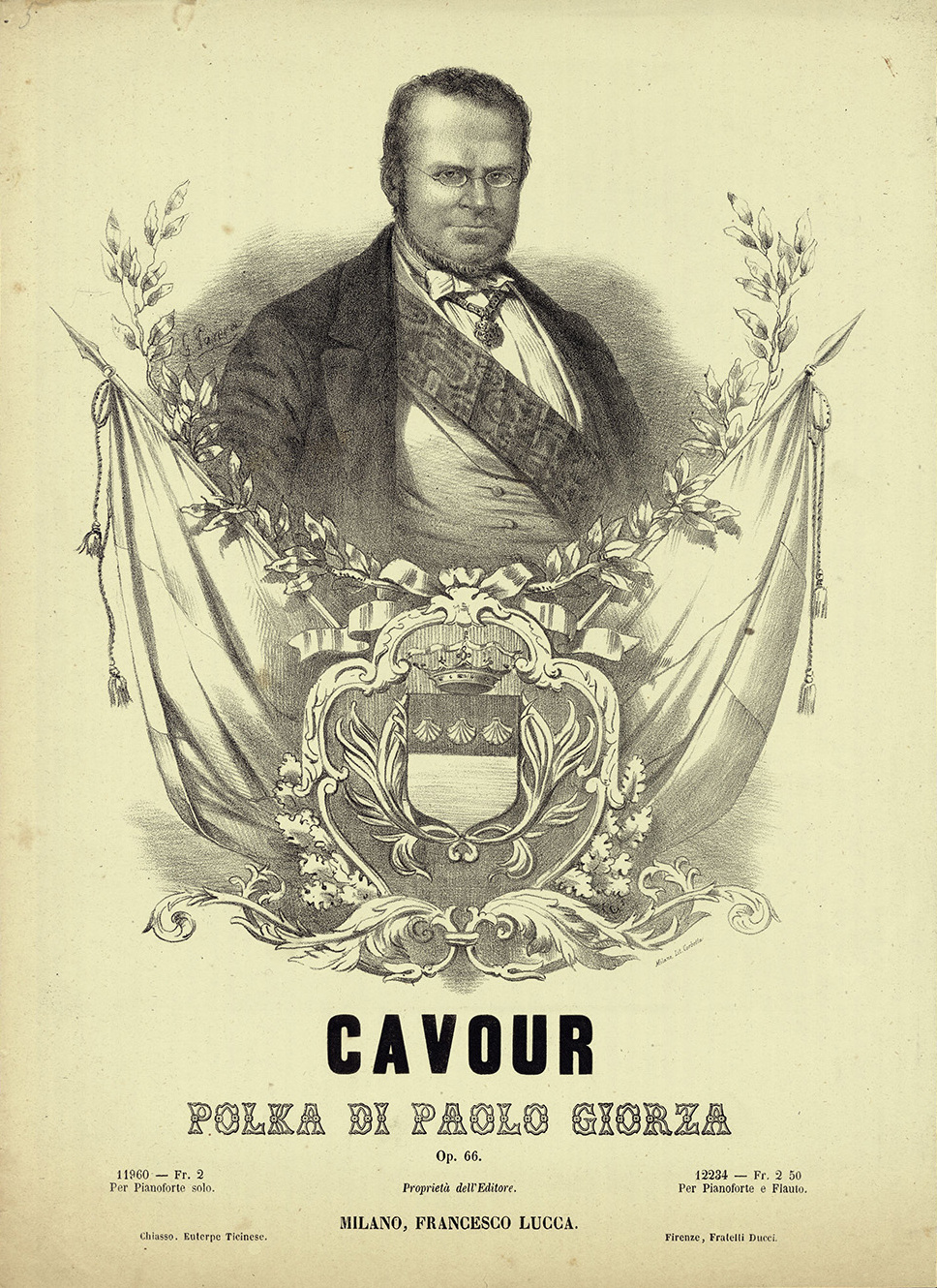 Polka by Paolo Giorza dedicated to Camillo Benso, conte di Cavour.